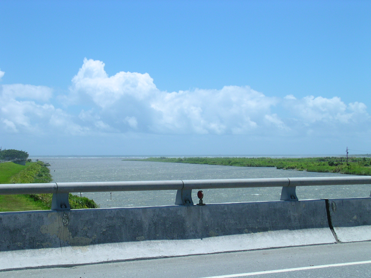 this photo taken by vegafish